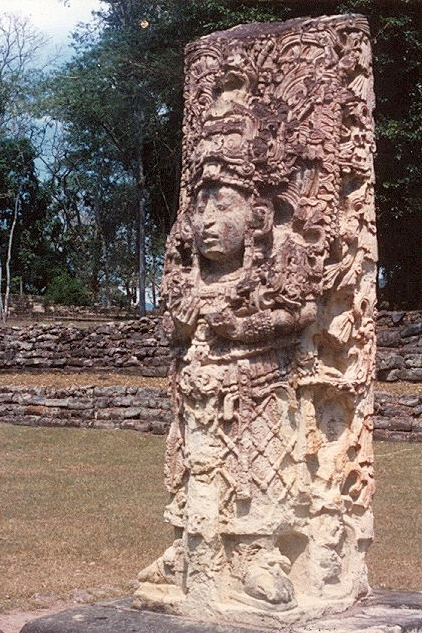 Stela H in Copán, Honduras. Depicts king Uaxaclajuun Ub'aah K'awiil represented in the role of the Maize God.